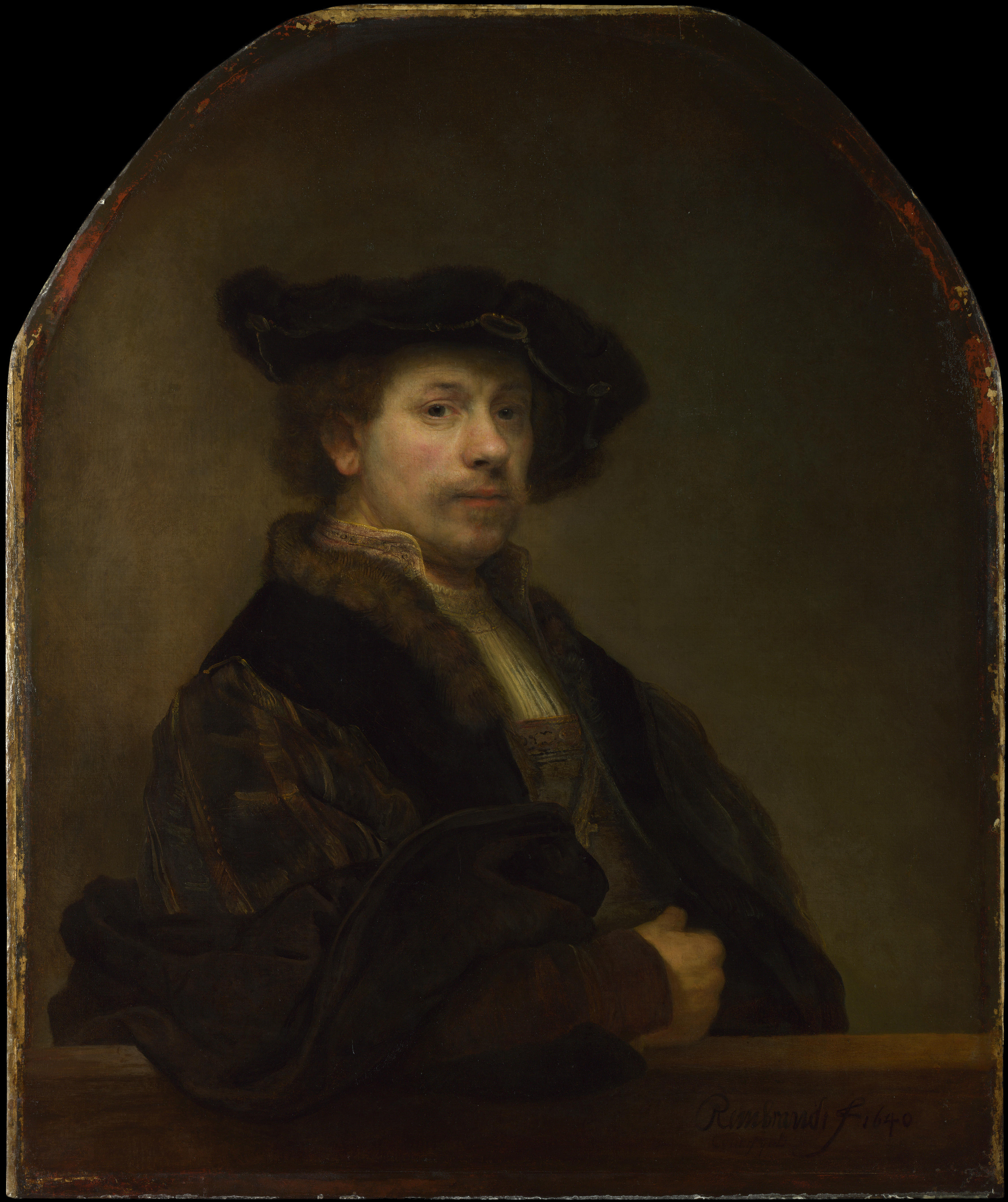 Rembrandt, Self Portrait at the Age of 34. National Gallery. Oil on canvas.102 x 80 cm. NG672. Not on display